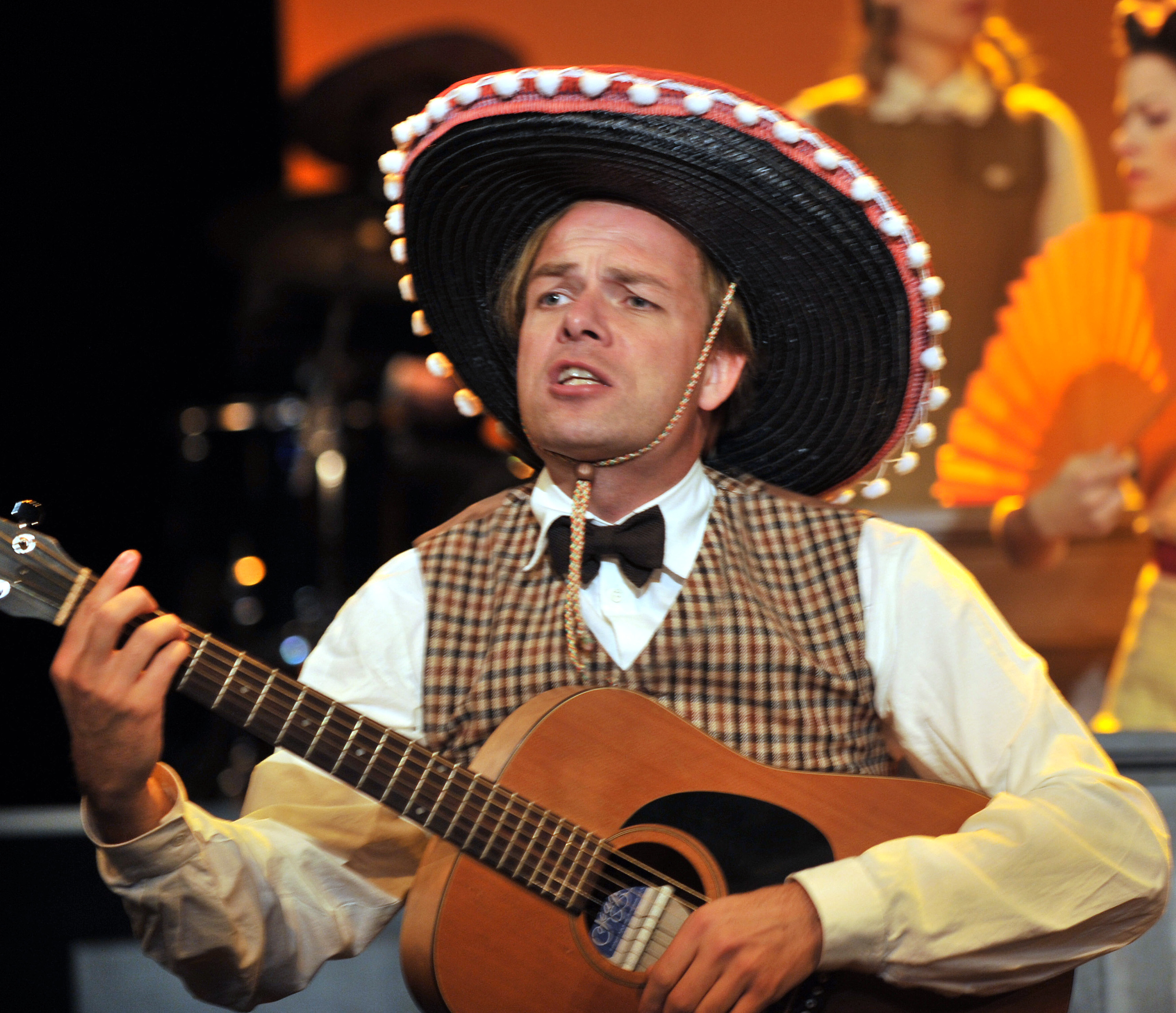 Viktor Skála actor of Městské divadlo Brno